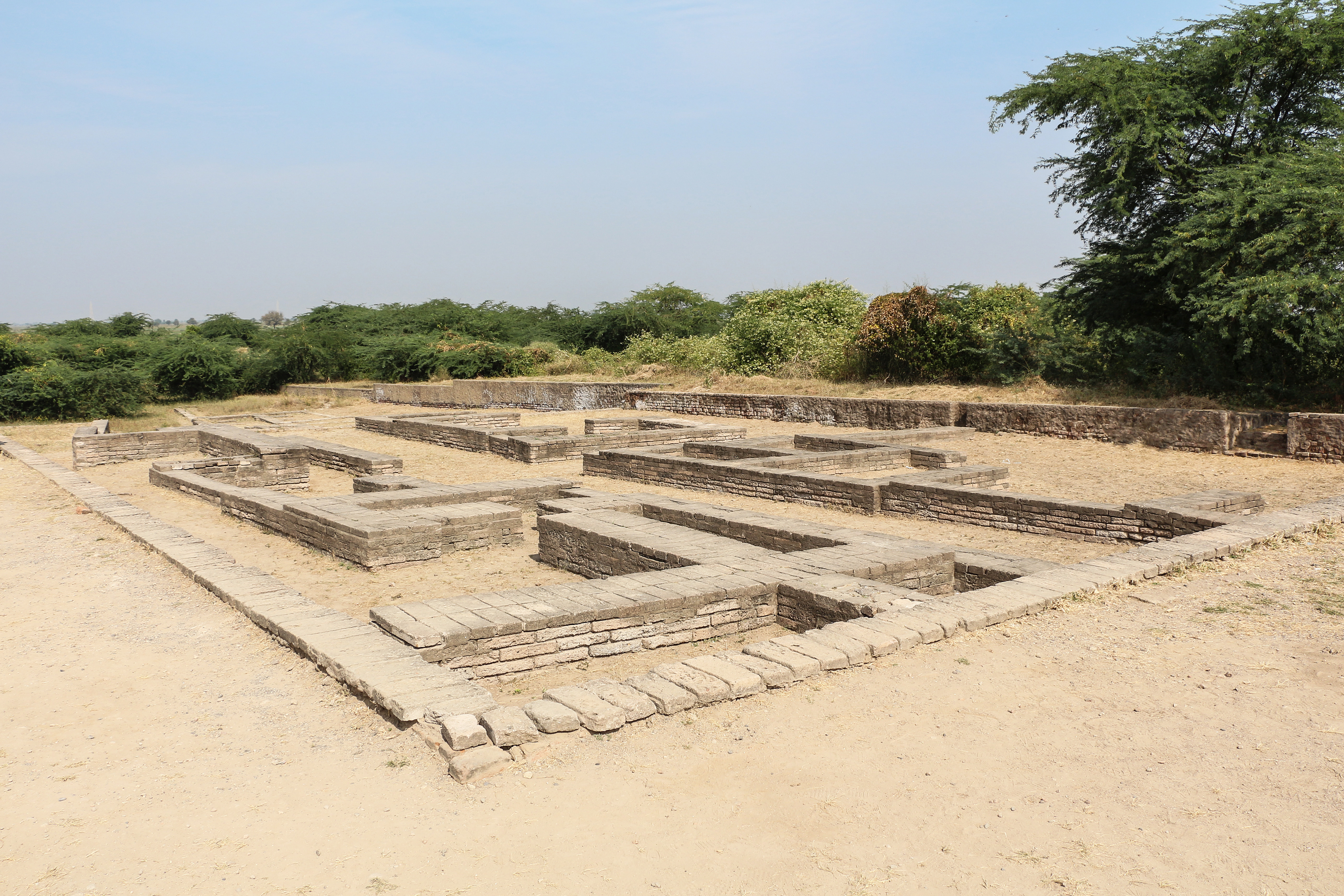 Ruins of the lower town in the site of Lothal, India